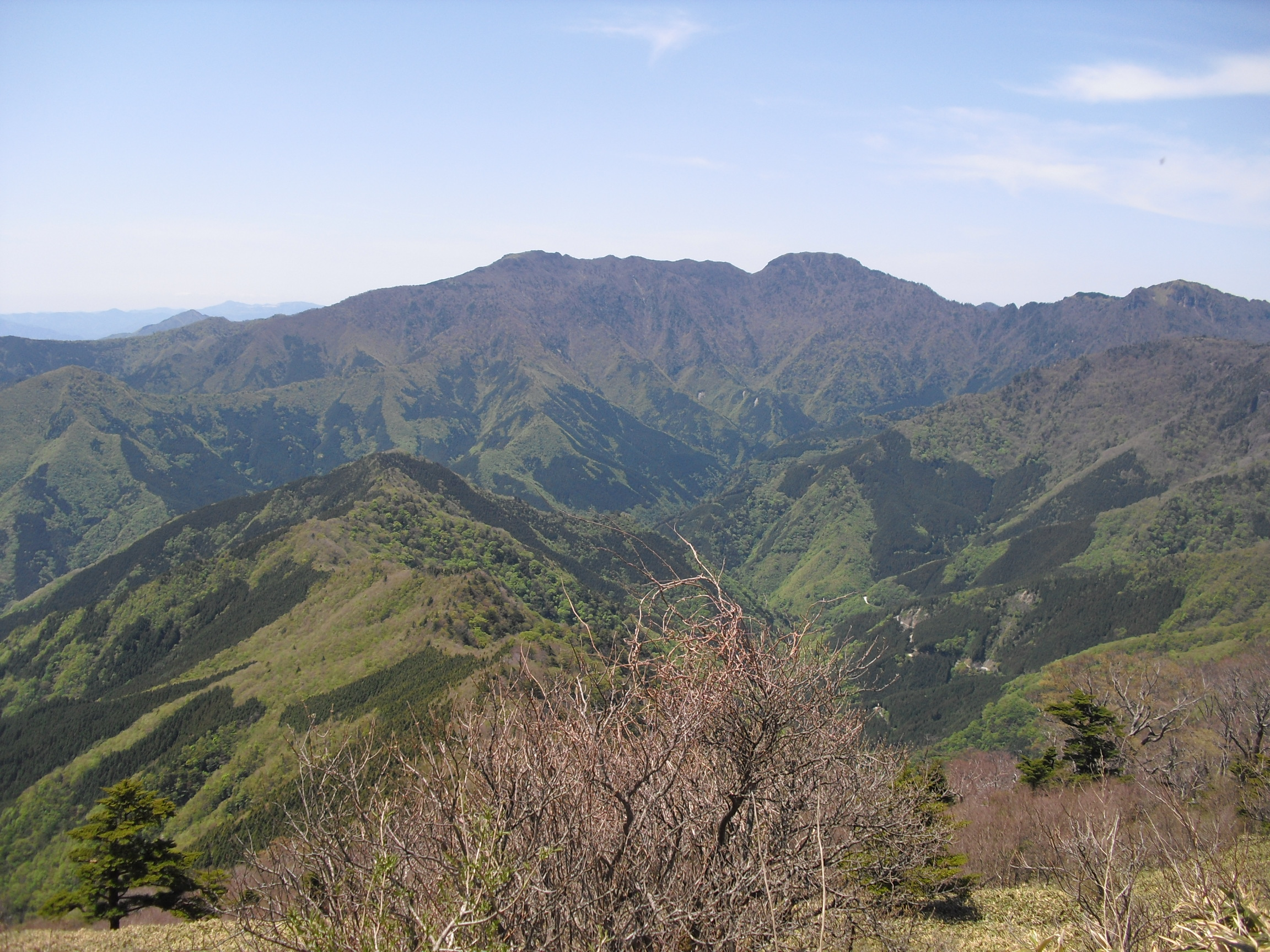 Mount Tebako (Tebako-san) on the left and Mount Tsutsujo (Tsutsujo-san) on the right in Shikoku, Japan. Looking southwest. Teken from Kamegamori forest road.